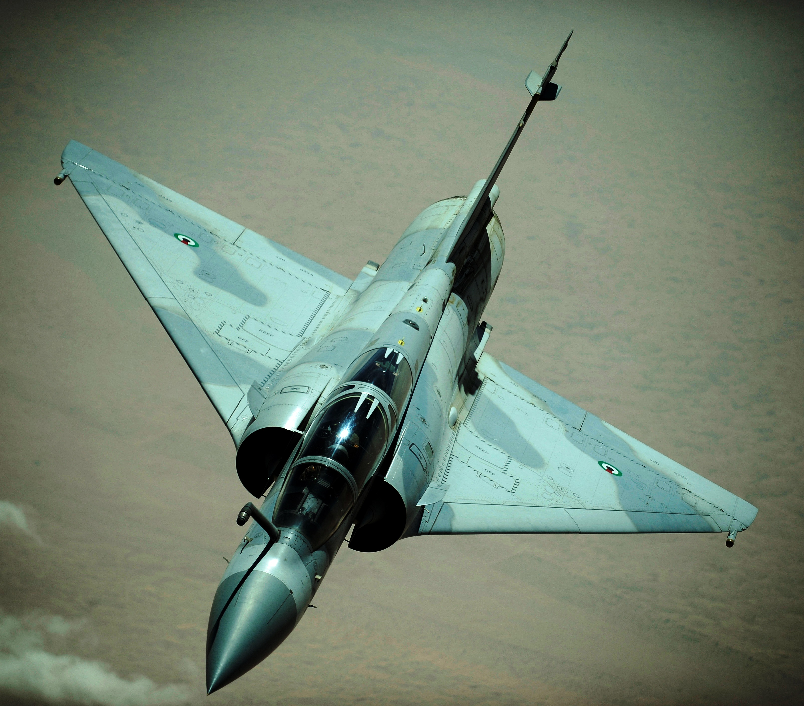 An Emirati Mirage 2000 aircraft conducts a training mission during a multinational exercise Dec. 9, 2009, in Southwest Asia. Aircrews from France, Jordan, Pakistan, the United Arab Emirates, the United Kingdom and the United States are training together in the U.S. Central Command area of responsibility.